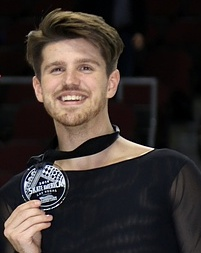 Alexandra Stepanova and Ivan Bukin - 2019 Skate America - Awarding ceremony